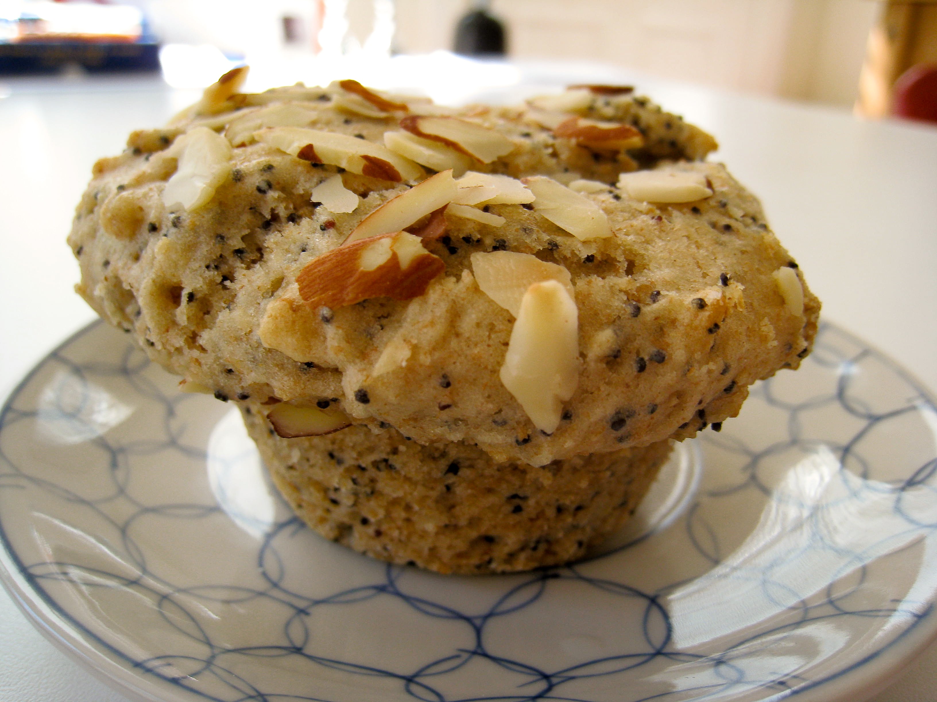 Check out for more tasty information.